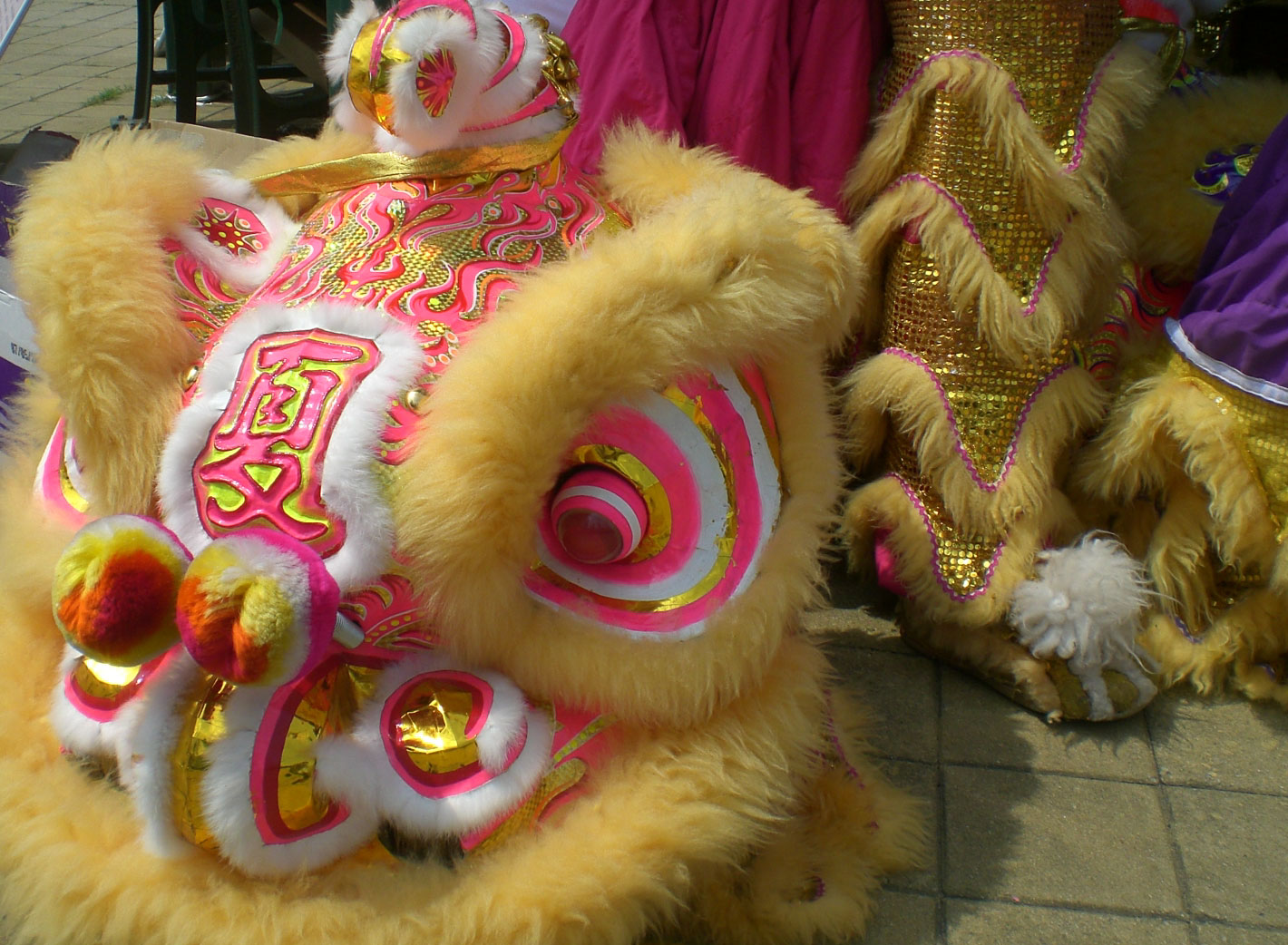 Lion dance (simplified